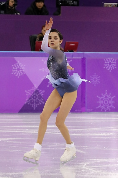 Evgenia Medvedeva at the 2018 Winter Olympic Games - Short program